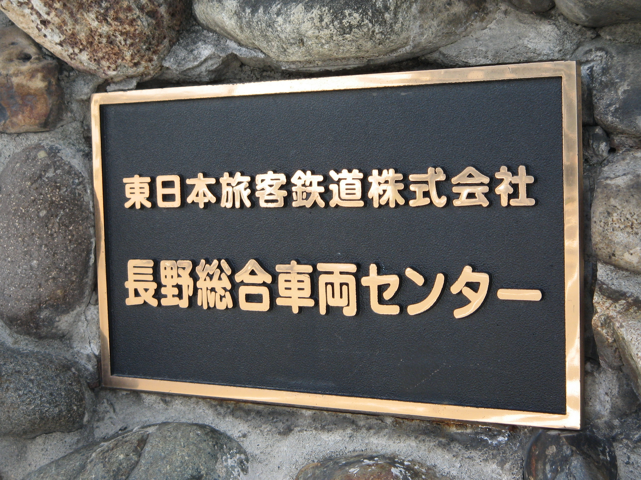 Nagano General Rolling Stock Center of JR East